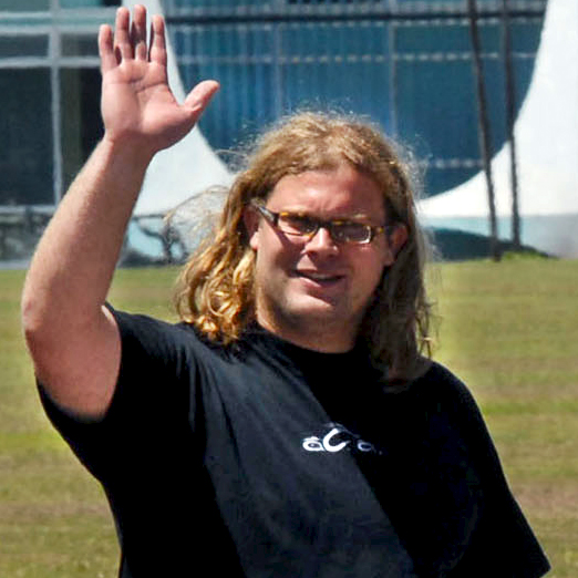 Mickey Teutul, detail, durin his travel to Brazil